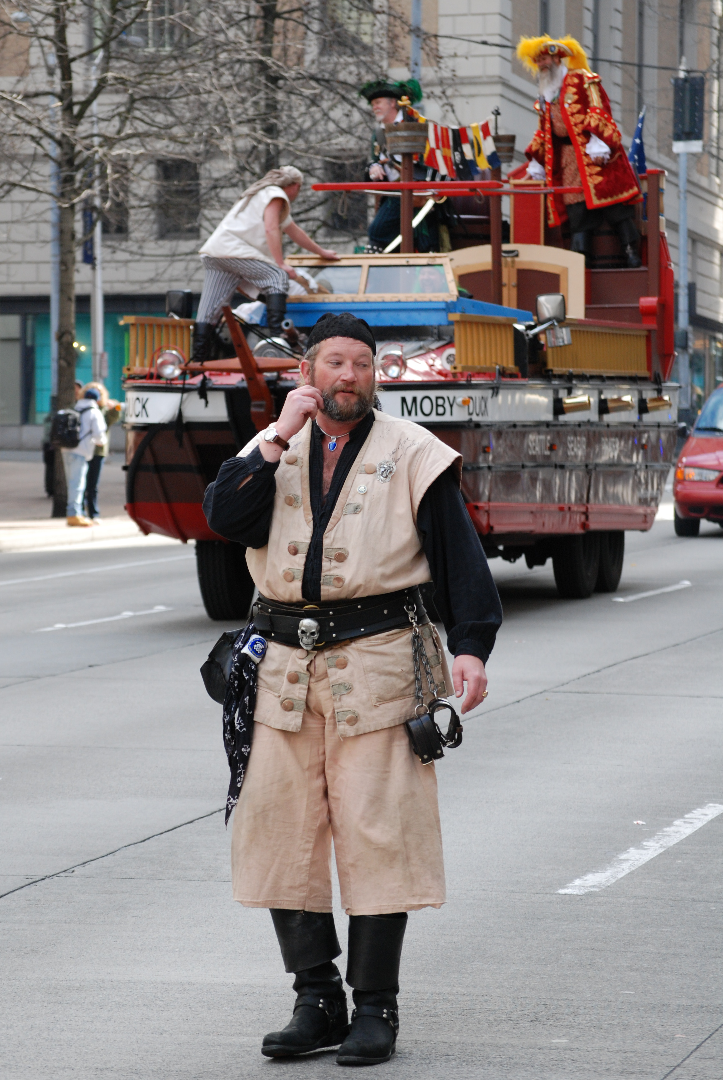 Seafair pirates on Moby Duck DUKW converted to pirate ship